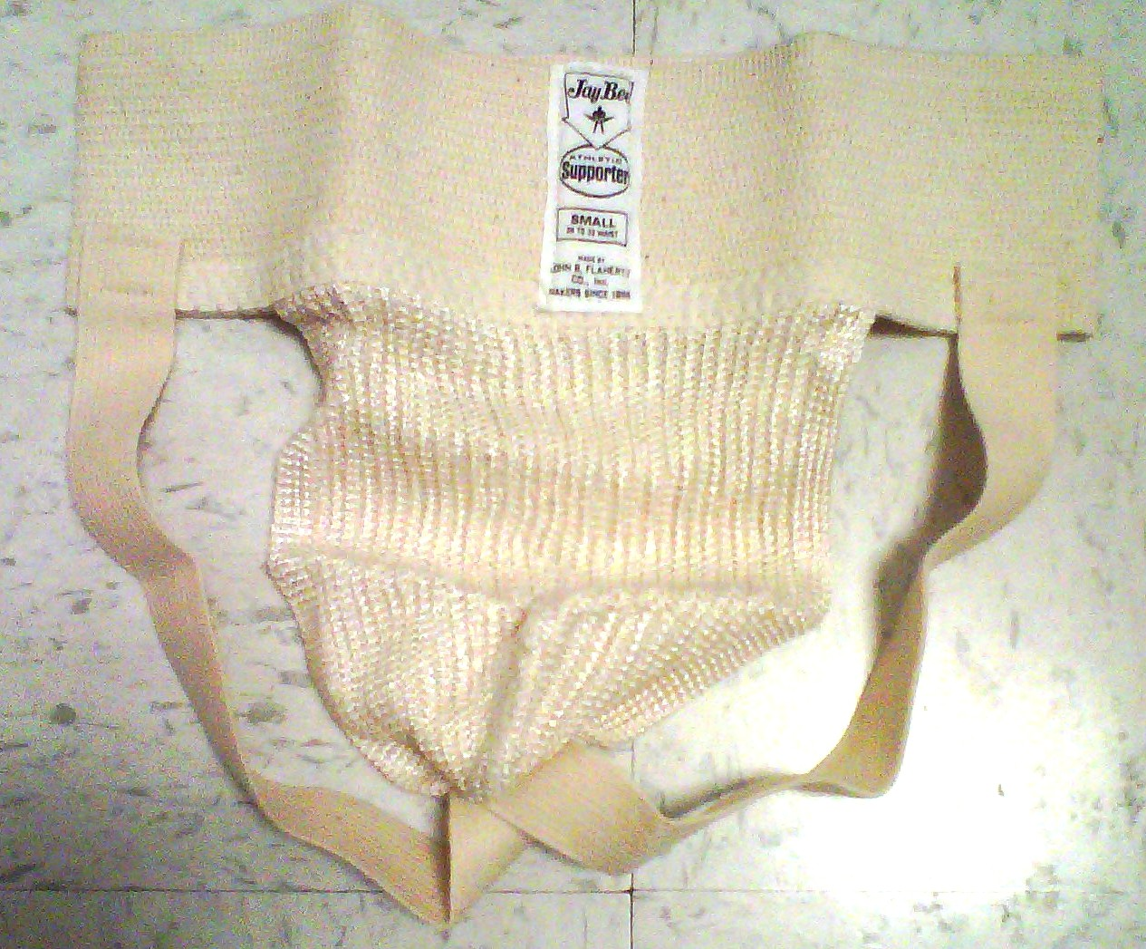 Vintage JayBee Jockstrap - Made in USA